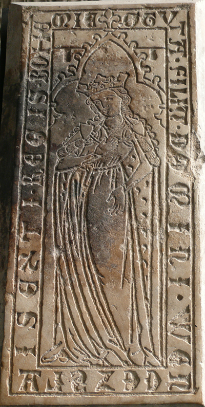 Tombstone of Judith of Habsburg (died 1297), Convent of St Agnes of Bohemia, Prague